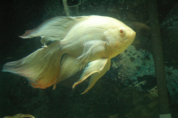 Photo of a leucistic Long Finned Oscar (Astronotus ocellatus). Some have remarked that this strain is more difficult to care for than the strain found in the wild. However, this is not noticeable unless the specimen is under a lot of stress. The fish is a little bulkier due to carrying more fins. Photograph by Kurt Auerbach